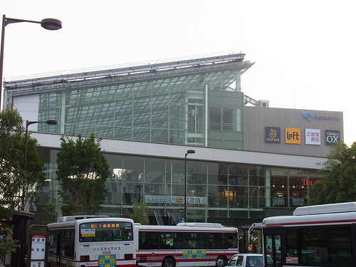 Kyodo corty shopping mall